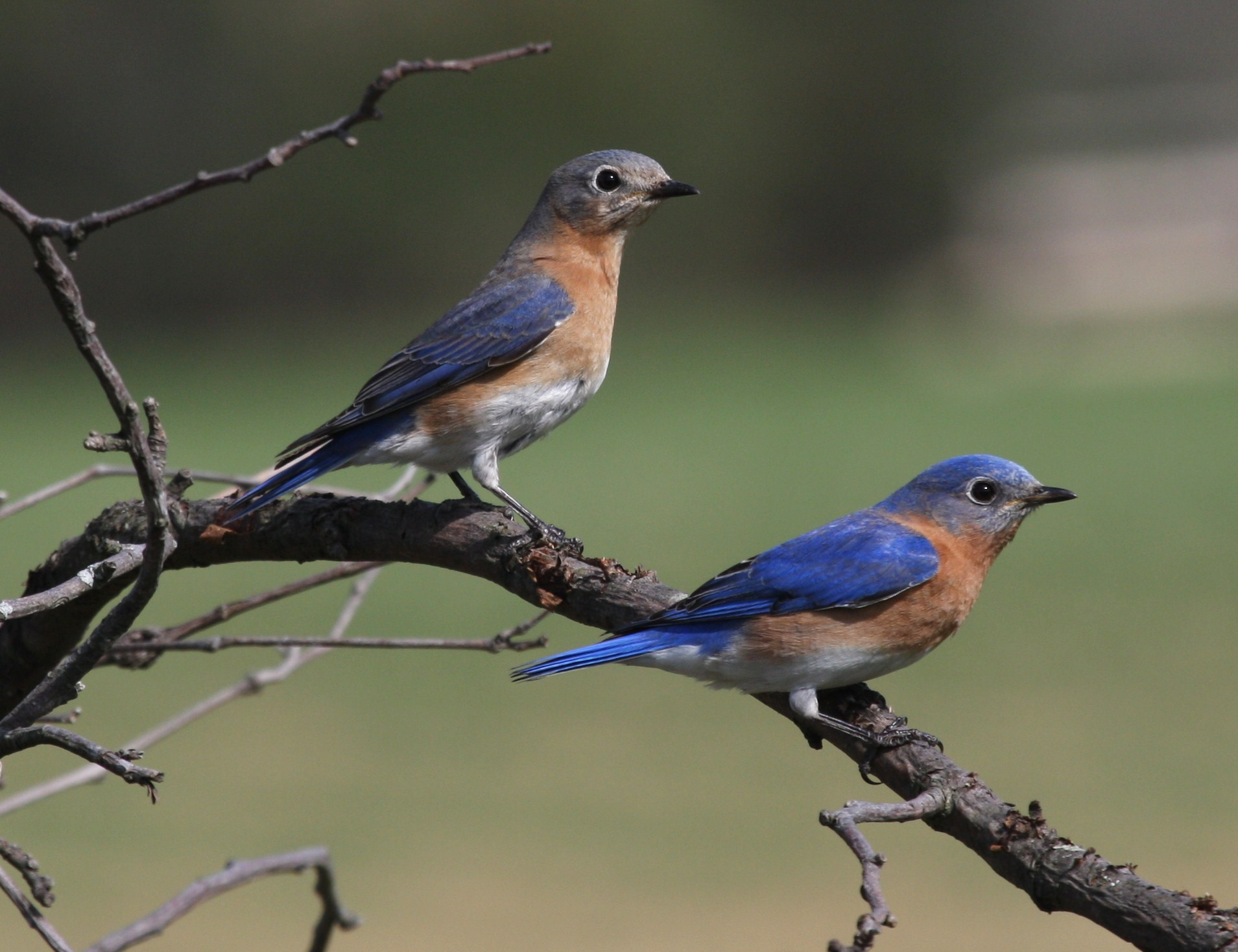 A pair of Eastern Bluebirds in Michigan, USA.